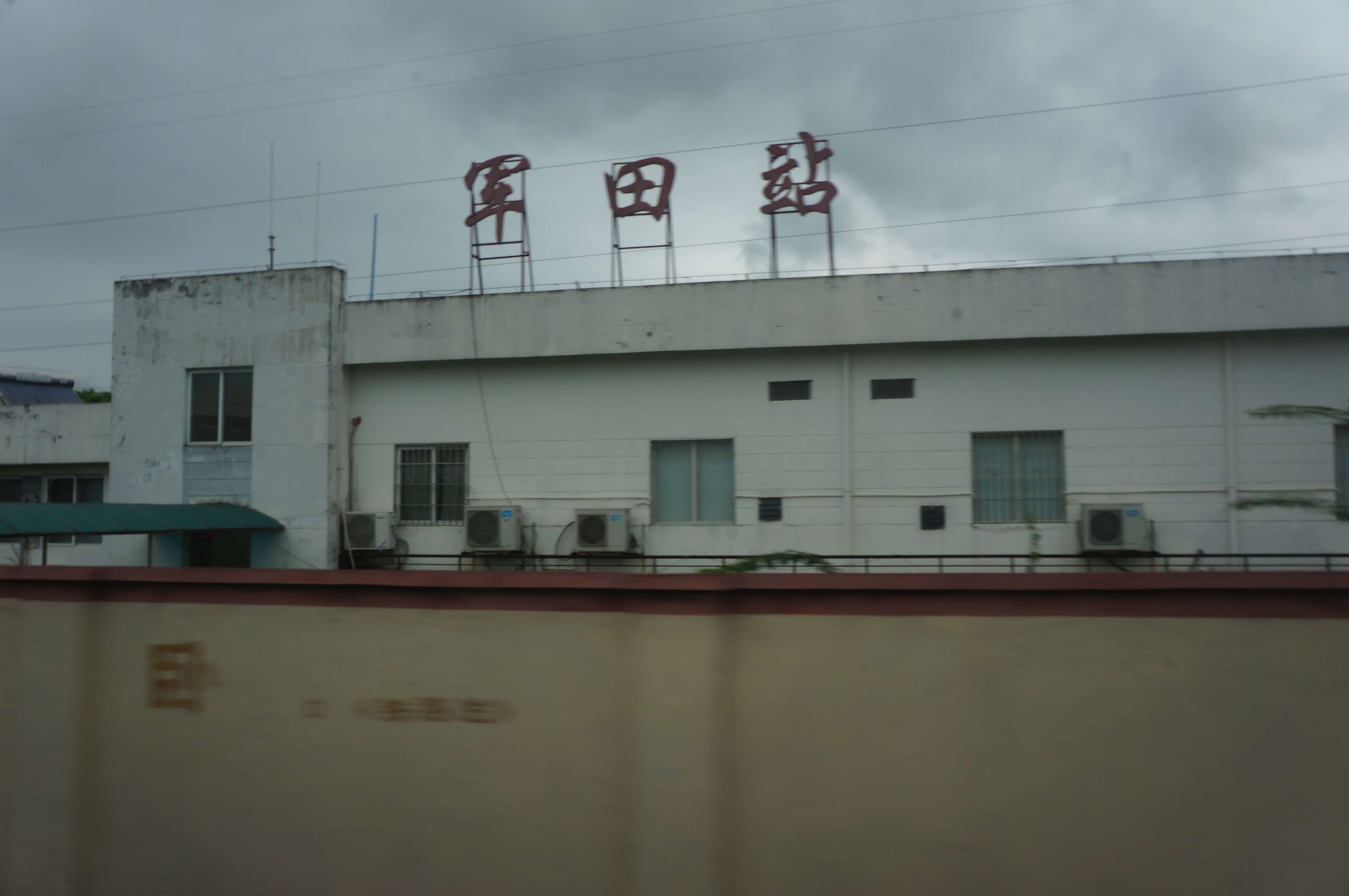 201609 Conductor of Juntian Station